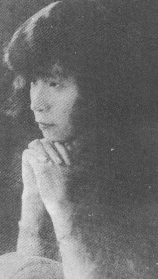 Eileen Chang (September 30, 1920 – September 8, 1995) was a Chinese writer.In 1926 in London.